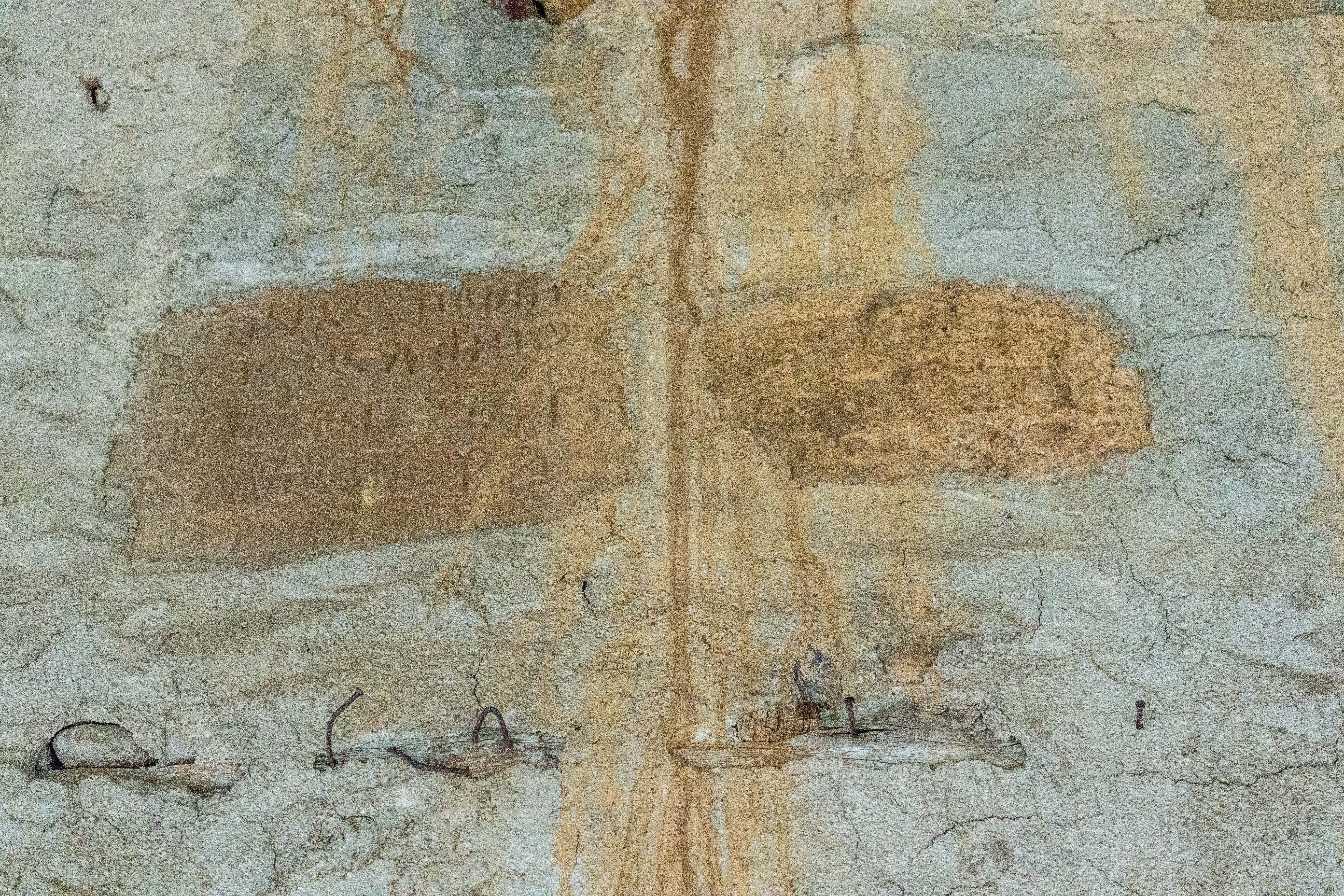 Inscription above the opening door of the Church of Sts. Constantine and Helena in the village of Negrevo, Maleševija, Macedonia